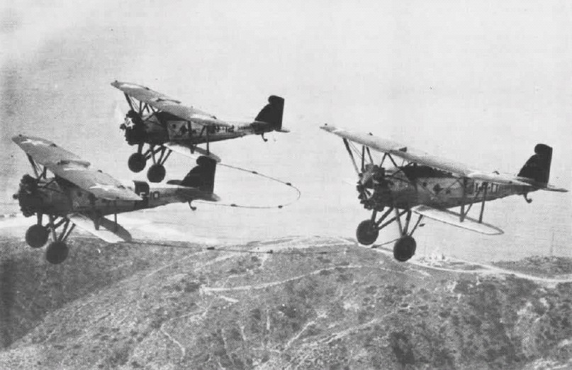 Three U.S. Navy Boeing F2B-1 fighters that made up the 1928 U.S. Navy aerobatics team called The Three Seahawks. It existed only in 1928 in response to the U.S. Army Air Force The Three Musketeers team and was present at the National Air Races in 1928. It was formed out of VB-2B squadron pilots under the command of Lt. D.W. Tomlinson (Naval Aviator No. 1970).